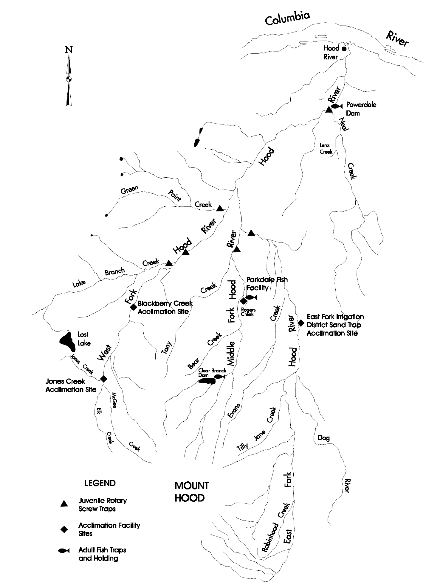 Diagram of Hood River watershed basin Extracted from Adobe Acrobat at 200% and created with Photoshop 9.0.1